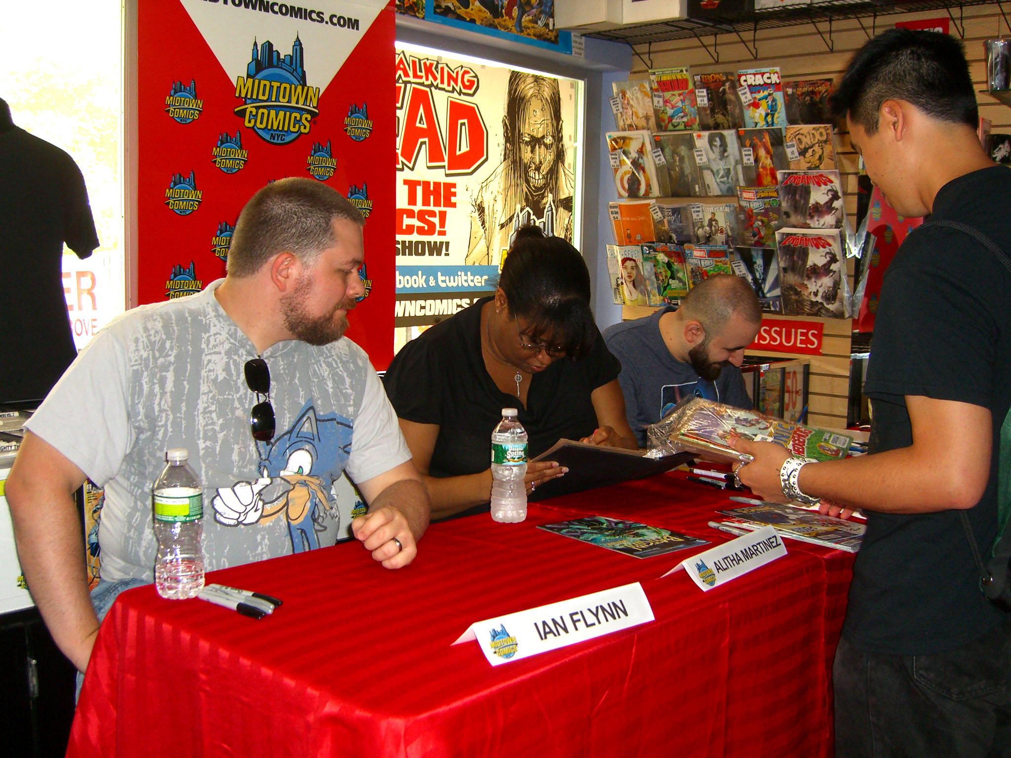 Comic book creators Ian Flynn, Alitha Martinez and Ryan Jampole at a September 8, 2012 signing for Red Circle Comics' New Crusaders: Rise of the Heroes #1 at Midtown Comics in Manhattan. Flynn is the writer on the book, while Jampole illustrated a variant cover for it. Martinez, who is the artist on issue #3, was on hand to provide sketches for fans, as was Jampole. This photo was created by Luigi Novi. It is not in the public domain, and use of this file outside of the licensing terms is a copyright violation.